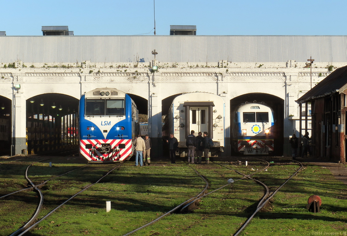 SOFSE-operated San Martin Line CSR SDD7 and CNR CKD8 rolling stock at Haedo workshop in Buenos Aires.